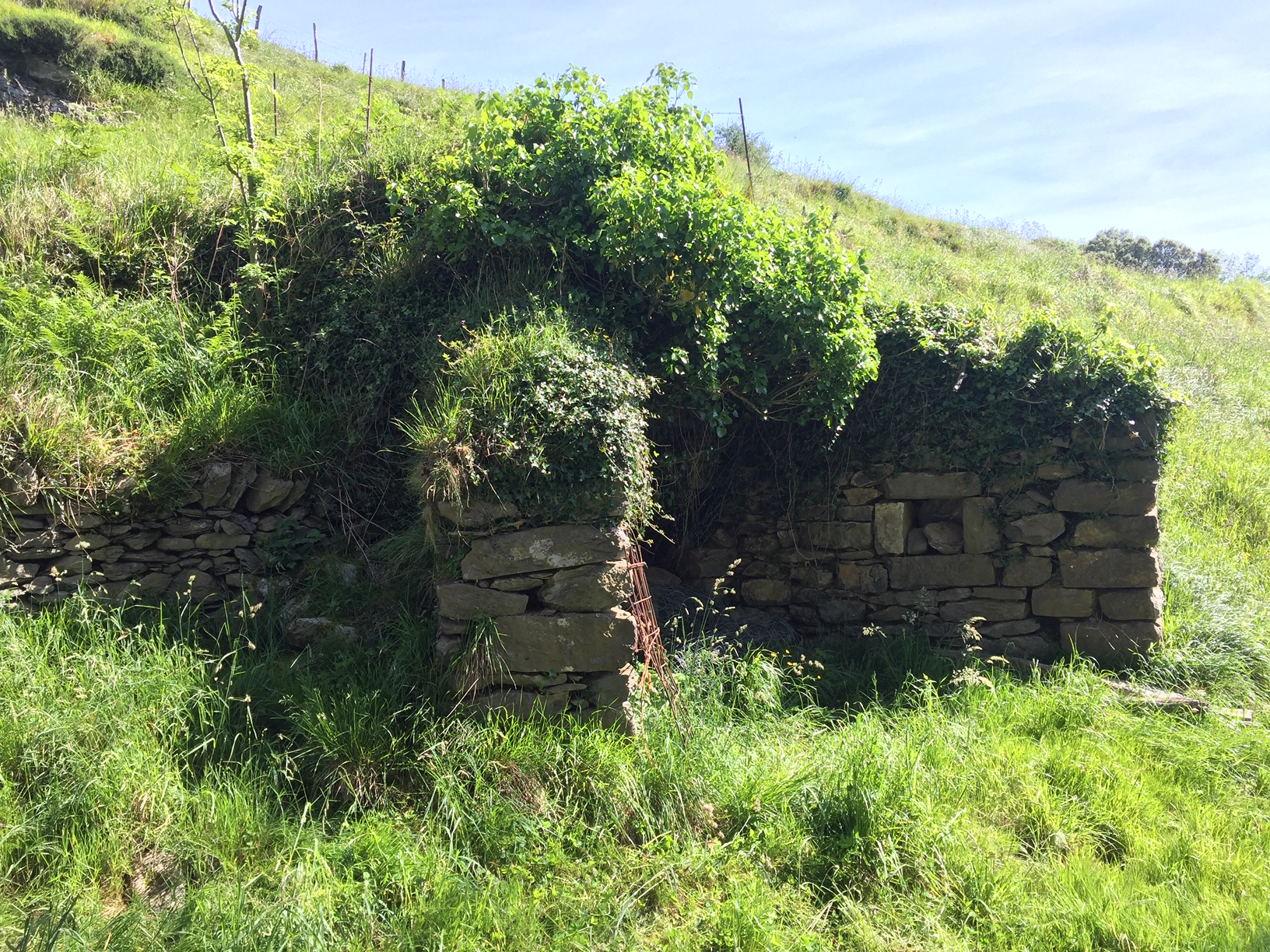 Limeklin of Arpide farmhouse, Alkiza